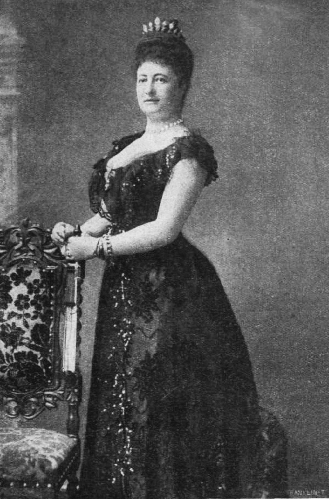 Portrait of Archduchess Maria Dorothea of Austria (1867-1932)